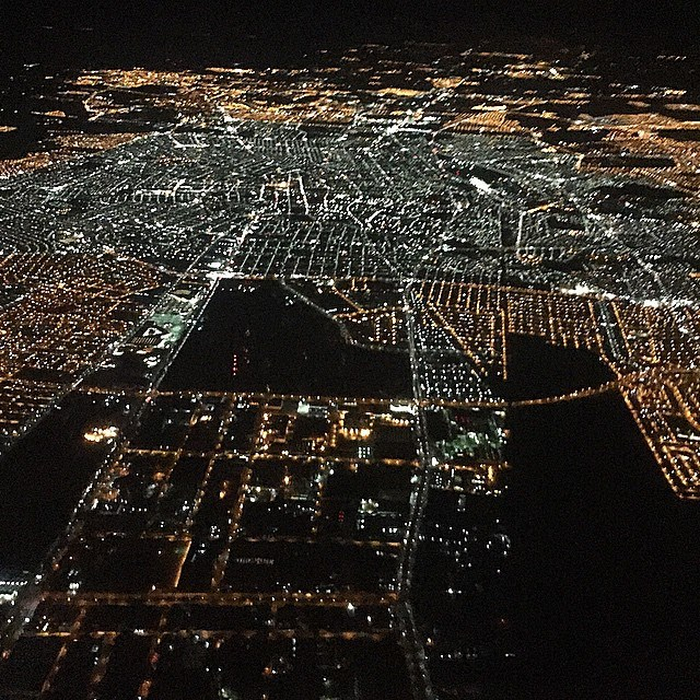 Aguascalientes City seen from a flight at night.